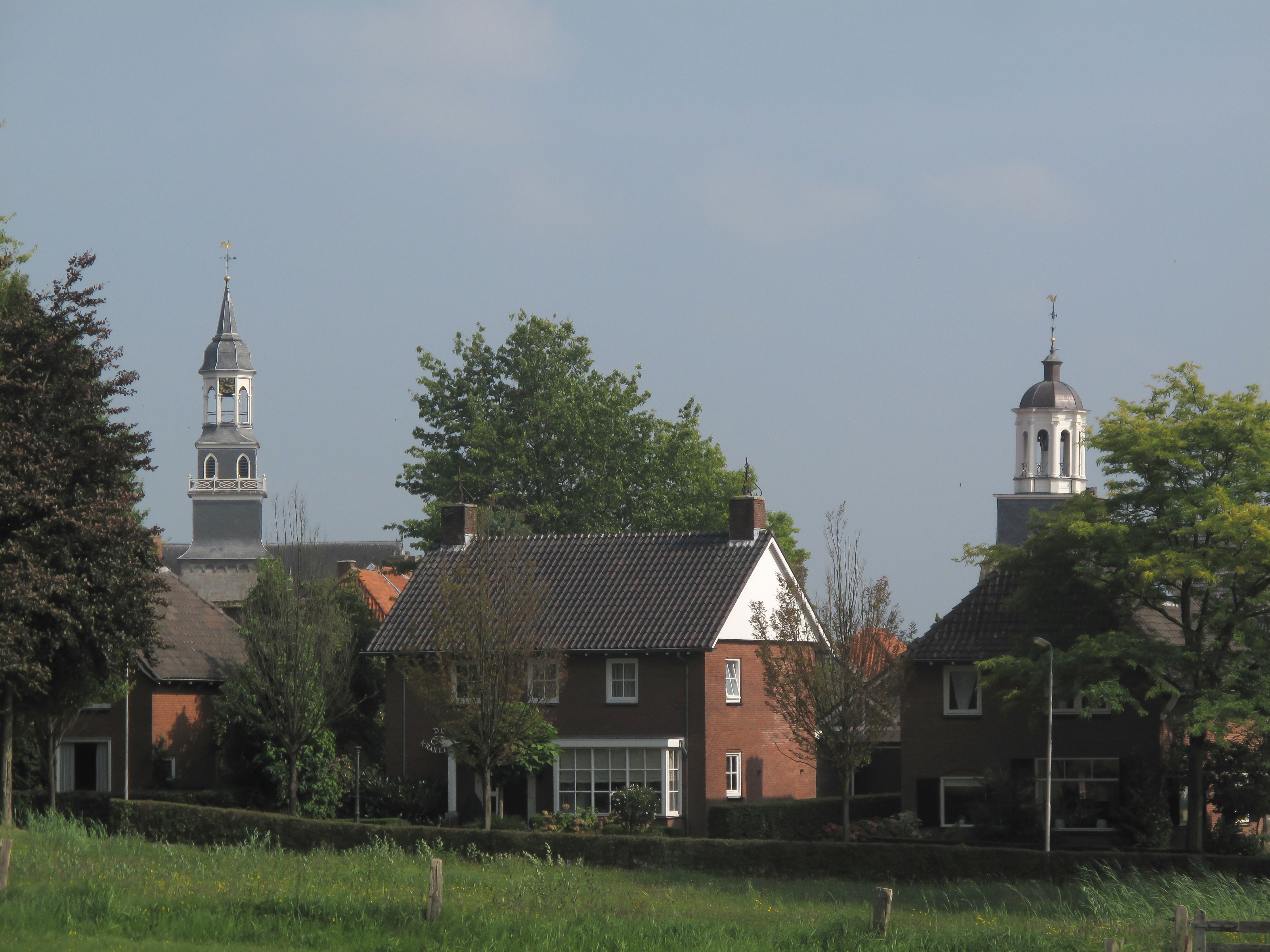 Ootmarsum, view to the town with two churchtowers